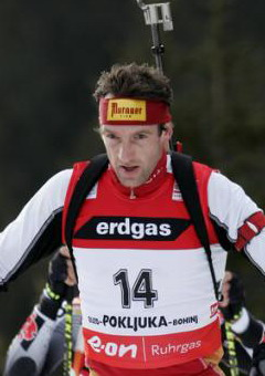 Christoph Sumann